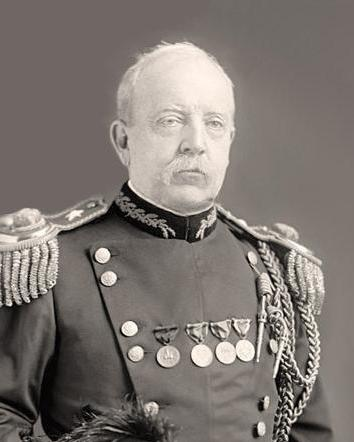 Brigadier General William A. Mann at about the time of his assignment as Commandant of the School of Musketry, 1916